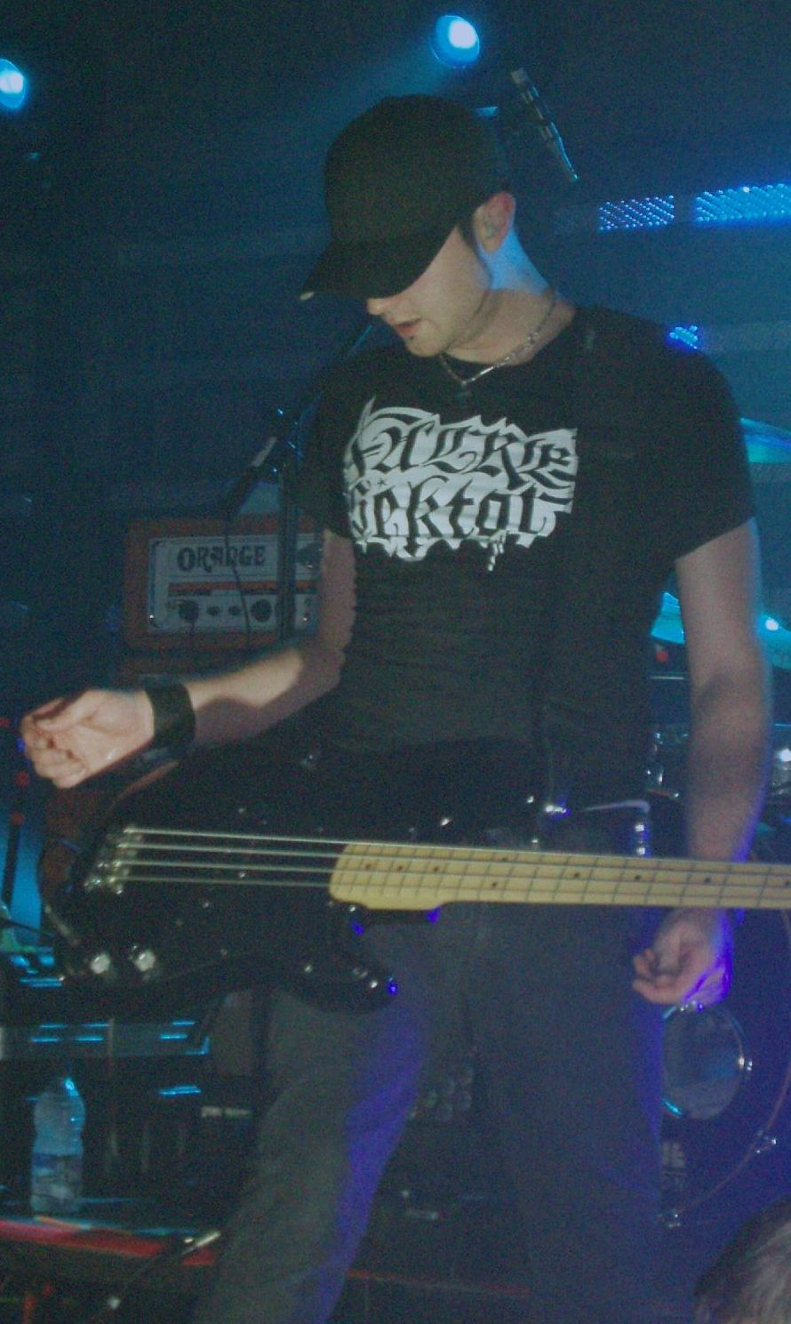 Bassist Gareth McGrillen performing live with Pendulum at University of Hertfordshire in 2007.